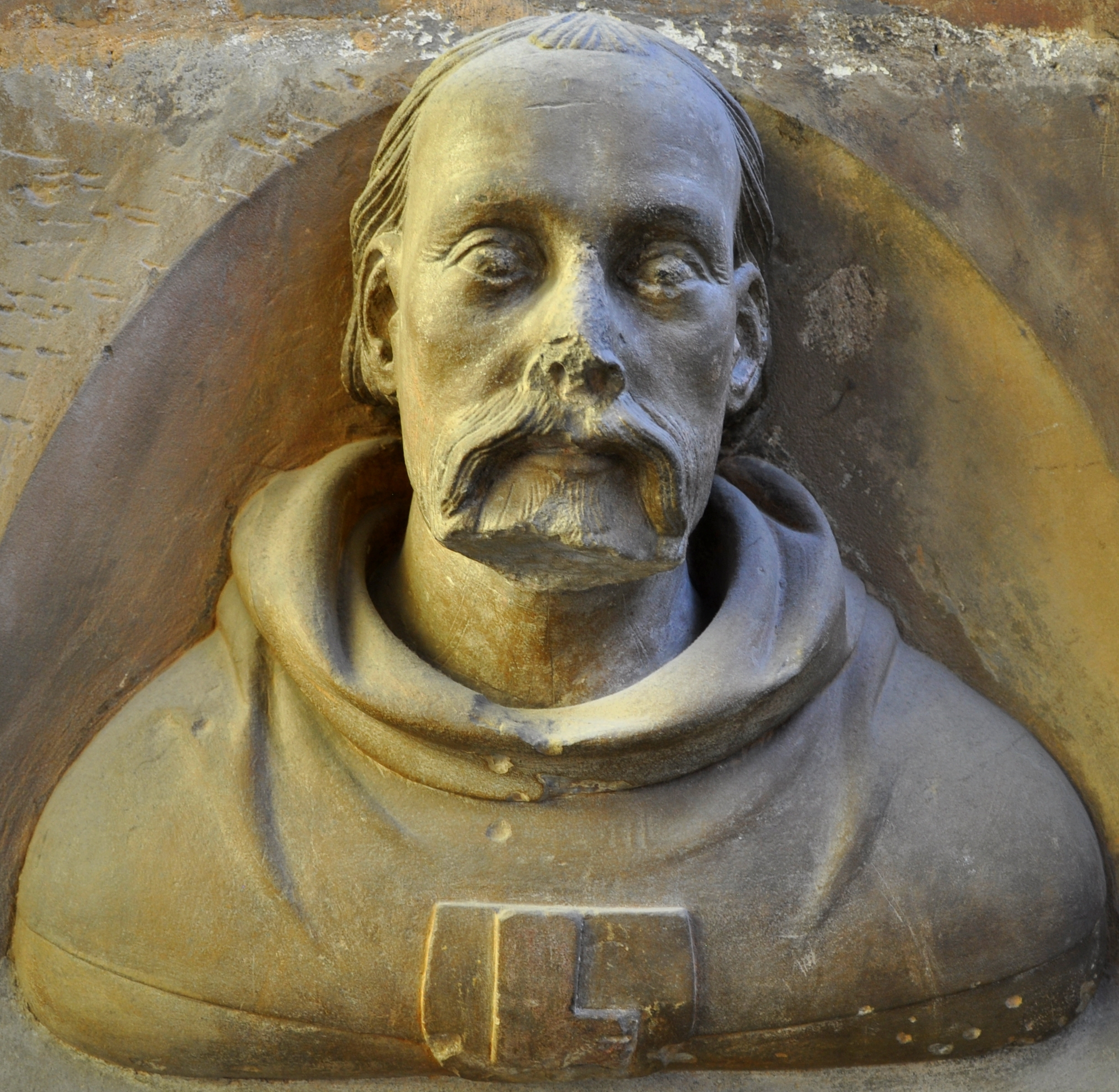 Bust of Peter Parler, the second architect of St. Vitus Cathedral in Prague. Sandstone. Very likely self-portrait.